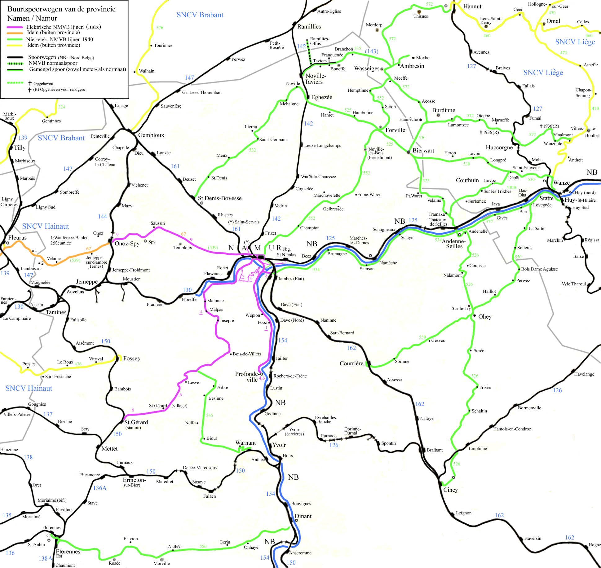 Map off the vicinal railways in the province off Namur. Purple lines = electrified lines (maximum extent) Brown lines = idem, but outside the province Green lines = non-electrified lines in 1940 Yellow lines = idem, but outside the province Blue lines = Rivers Black lines = Railways (normal gauge)